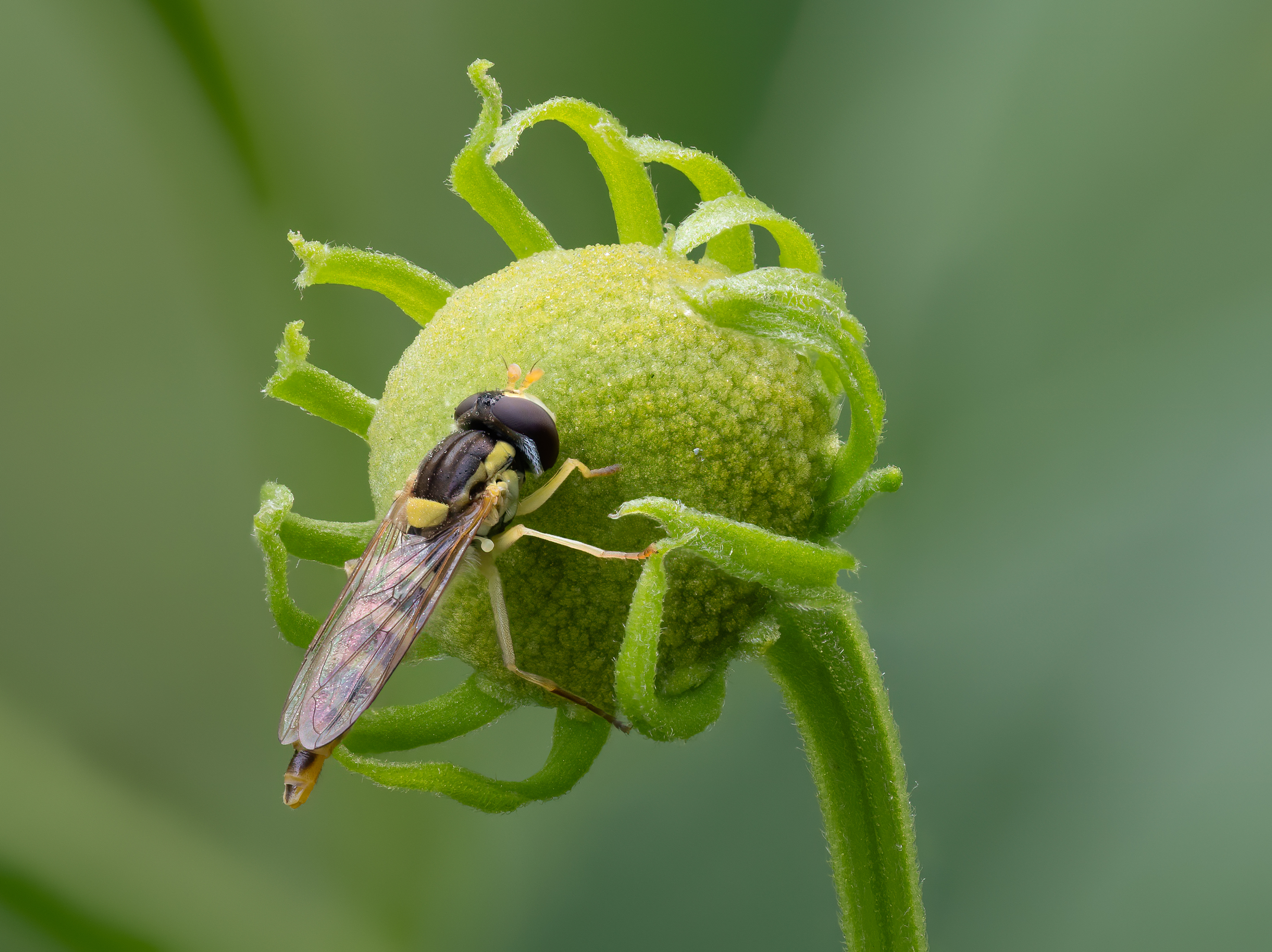 Hoverfly on the unopened blossom of a cockade:Focus stack of 15 frames.